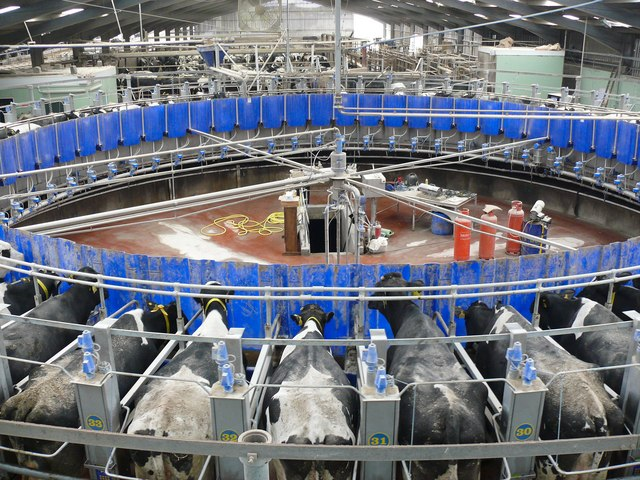 A rotary milking parlour utilizing PER (Parallel External Rotary) scheme at Broadwigg Farm near Whithorn (60 milking stalls)